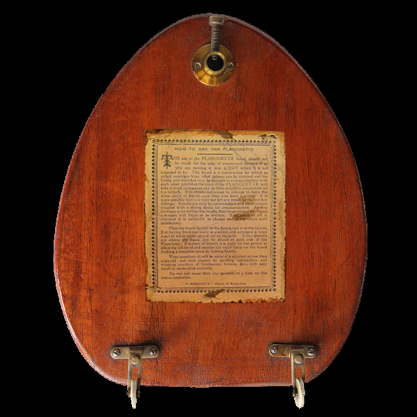 An early British automatic writing planchette, possibly Thomas Welton, 1860s.